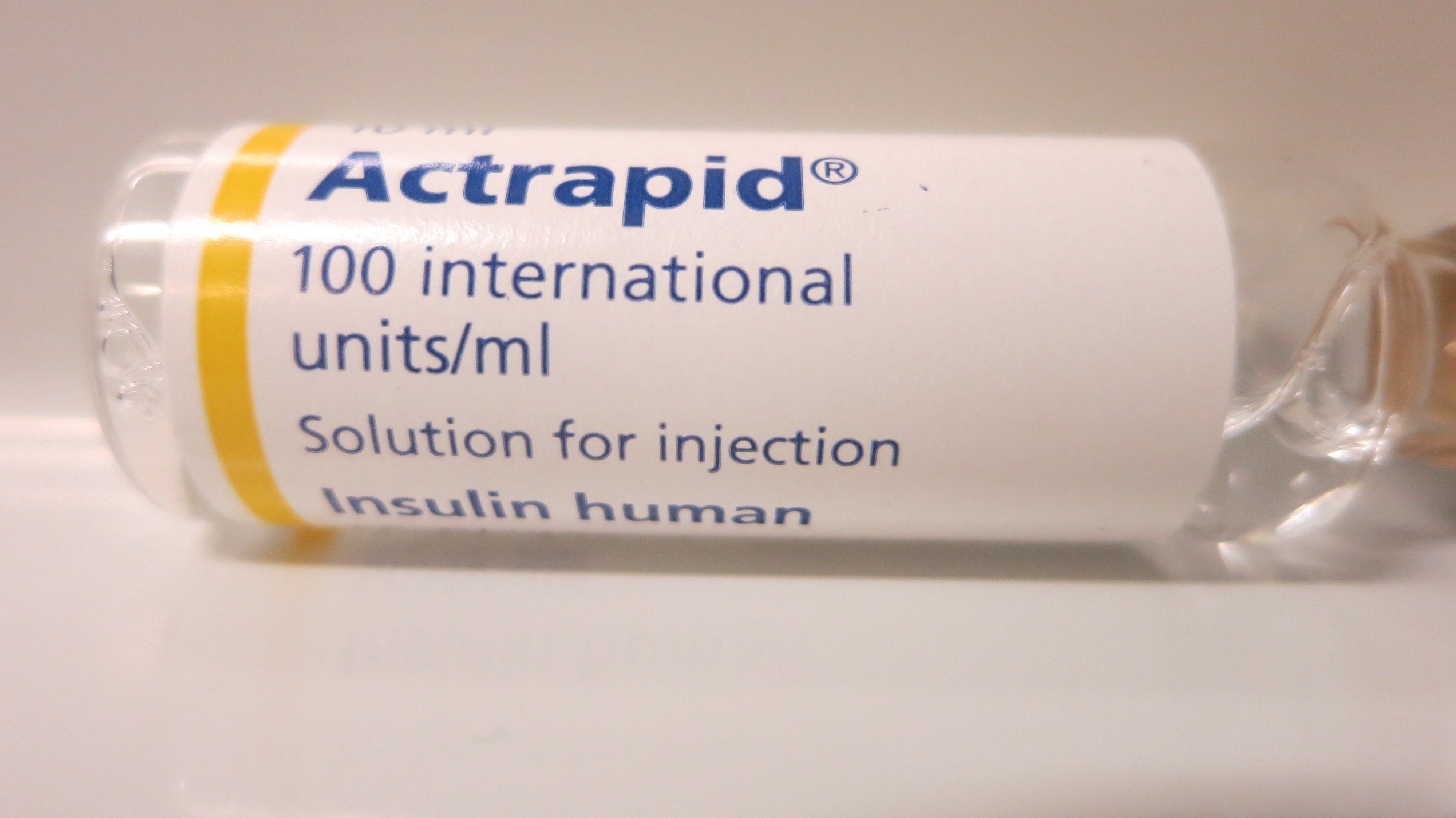 A vial of insulin, given the trade name Actrapid.